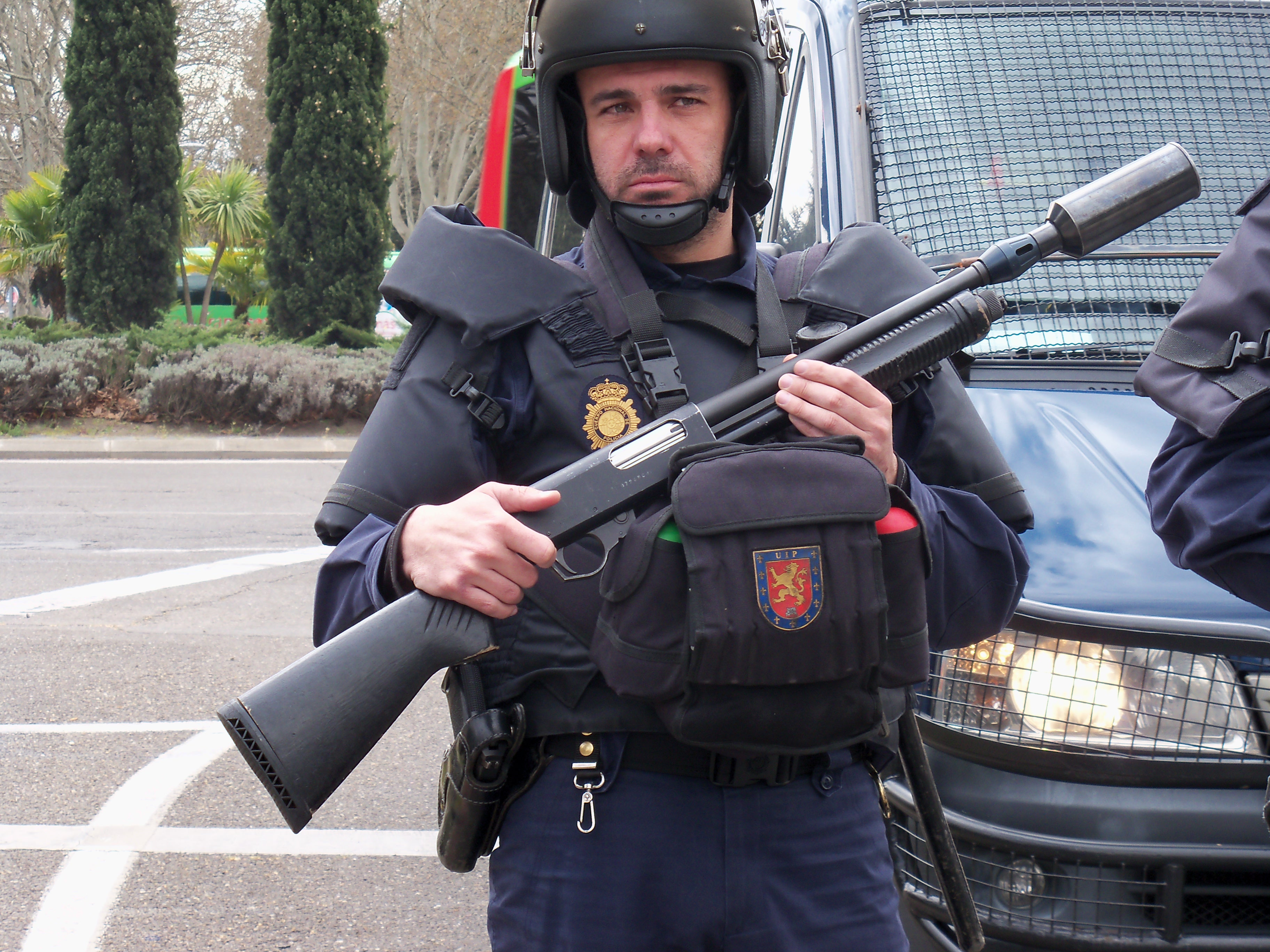 UIP policeman in Spain, with flash-ball.